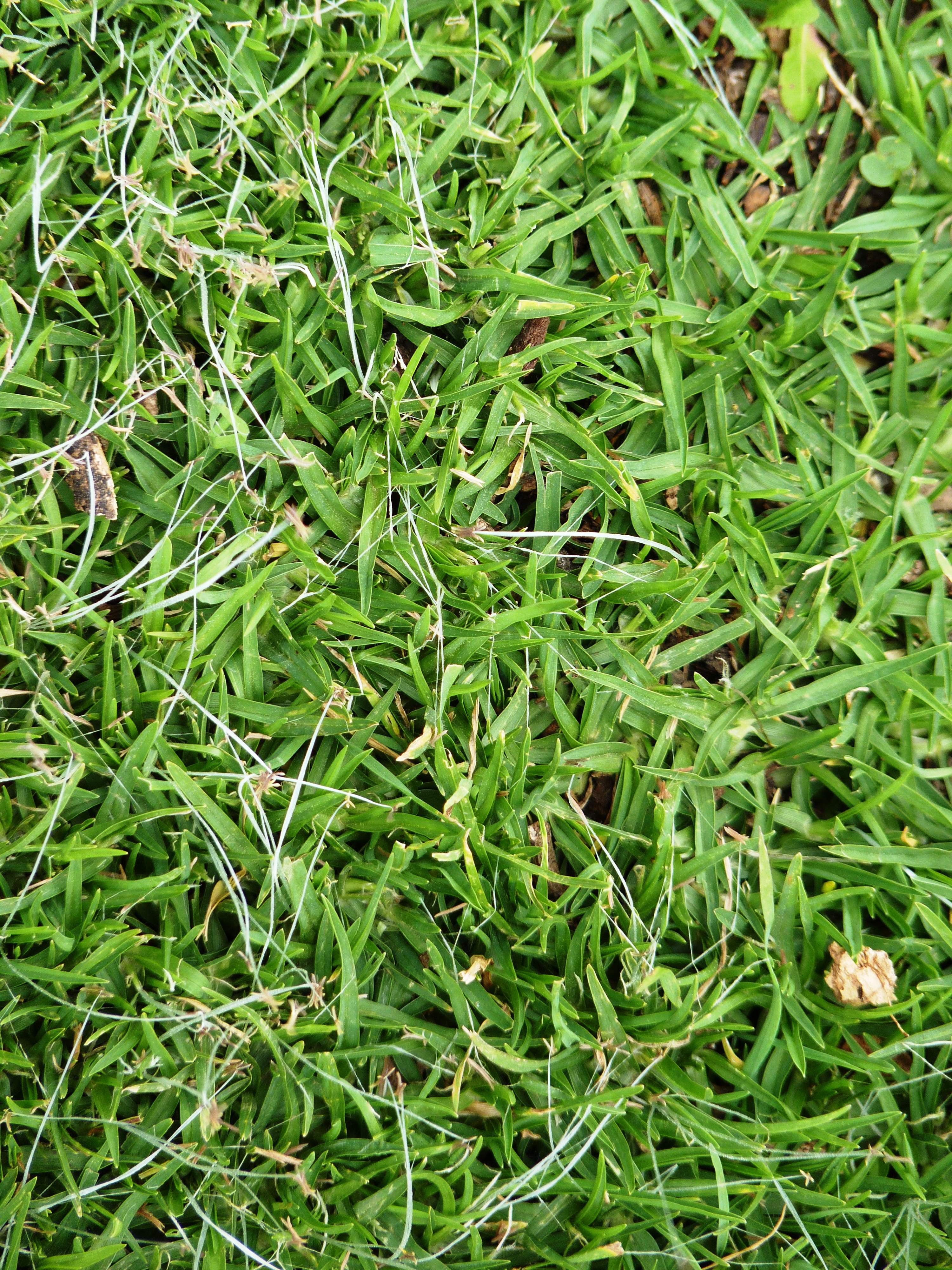 A rare flowering event of Pennisetum clandestinum grass in Quito, Ecuador